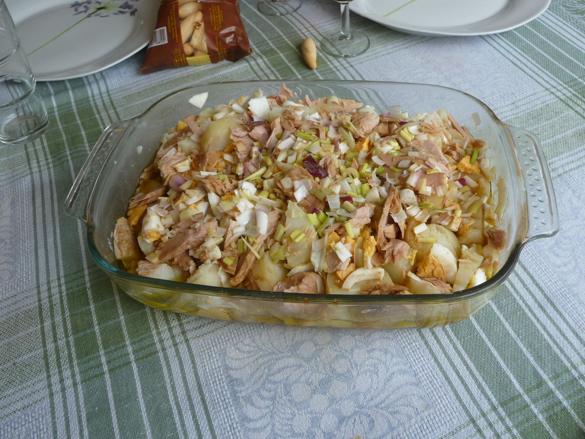 Patatas aliñadas (dressed potatoes), Andalusia typical food